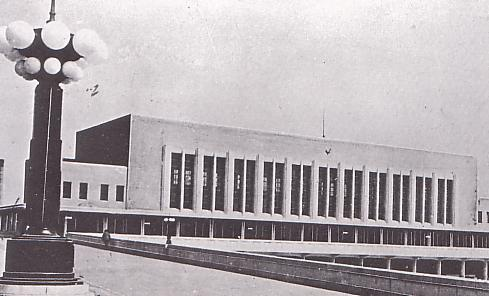 Dalian Railway Station — of the South Manchuria Railway, in northeastern China. Built in 1937 in Art Deco 'Moderne style' — during the Japanese operation/occupation period.